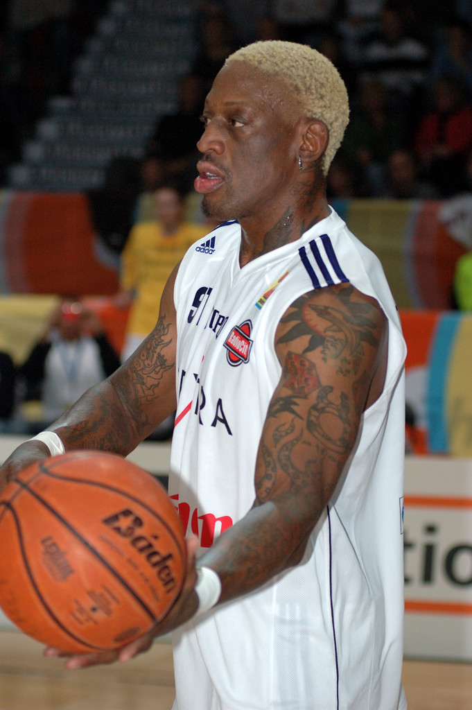 Dennis Rodman playing for Torpan Pojat (Finnish national league team) in November 6th 2005 in Helsinki, Finland.